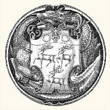 Exlibris. Author: George W. Eve (1855 – 1914)